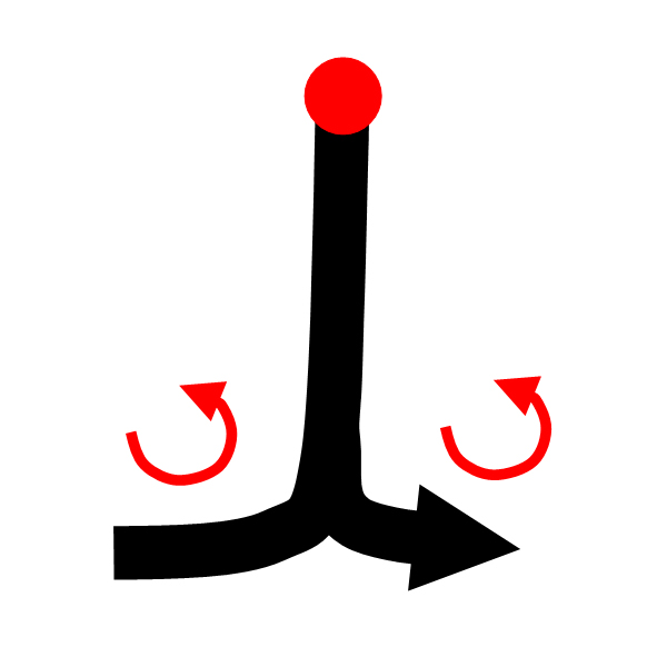 Overlay